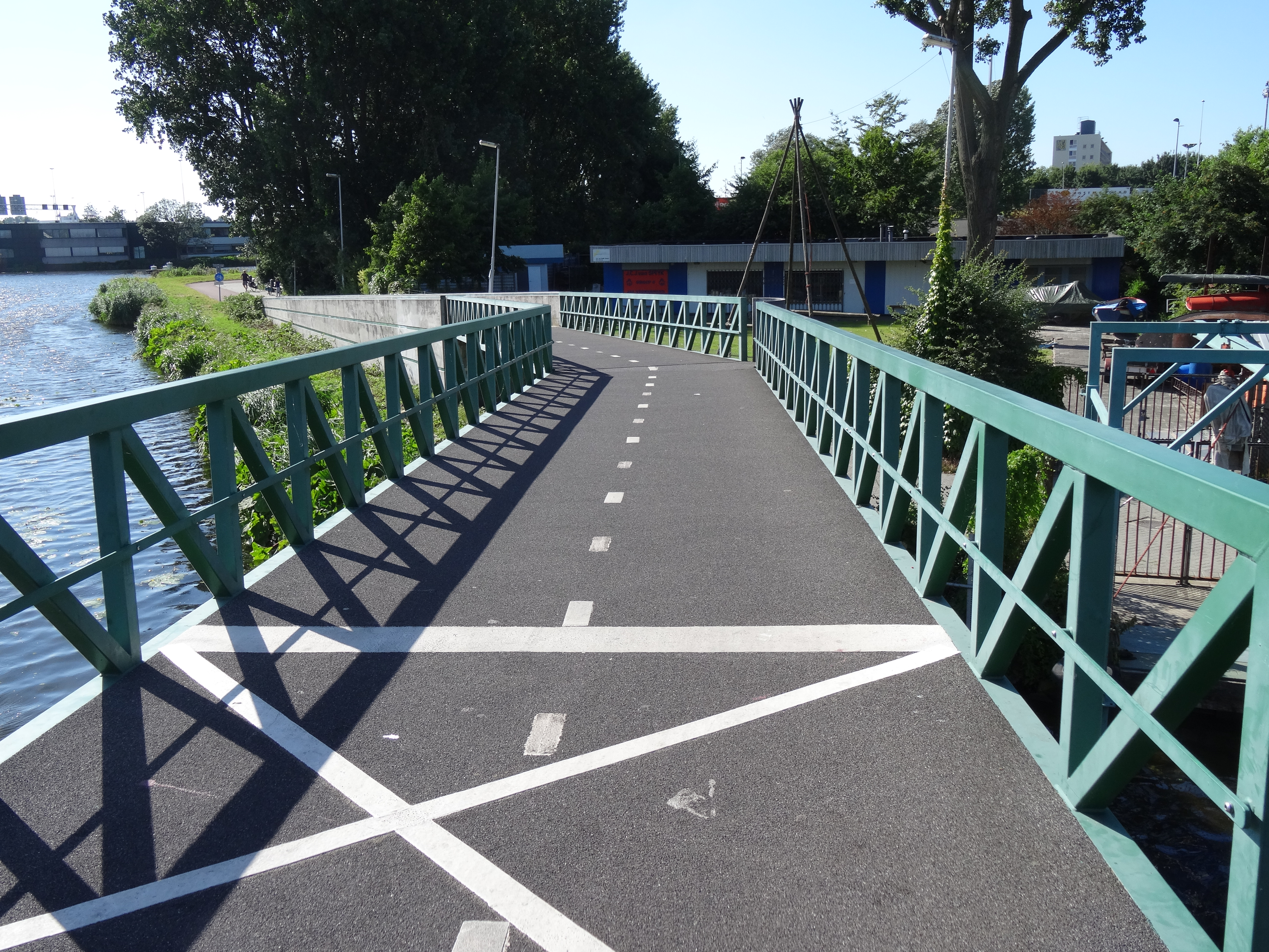 Jonkersbrug - Rotterdam - View of the ramp towards the northwest